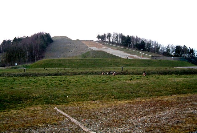 Dry Ski Slope, Watermead, Aylesbury. This dry ski slope appears to be derelict, or at least unused at present.